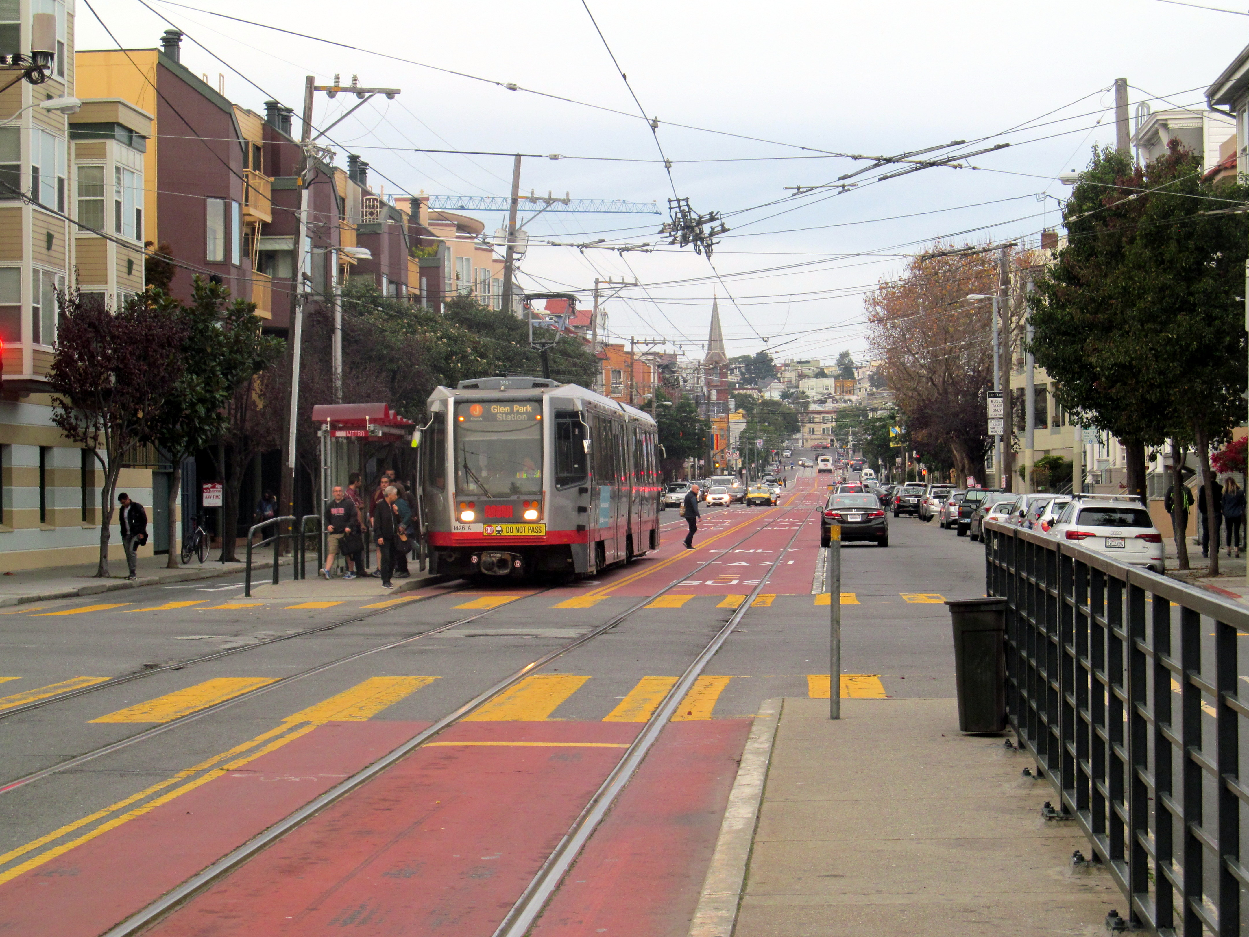 Outbound train at Church and 16th Street station in December 2017